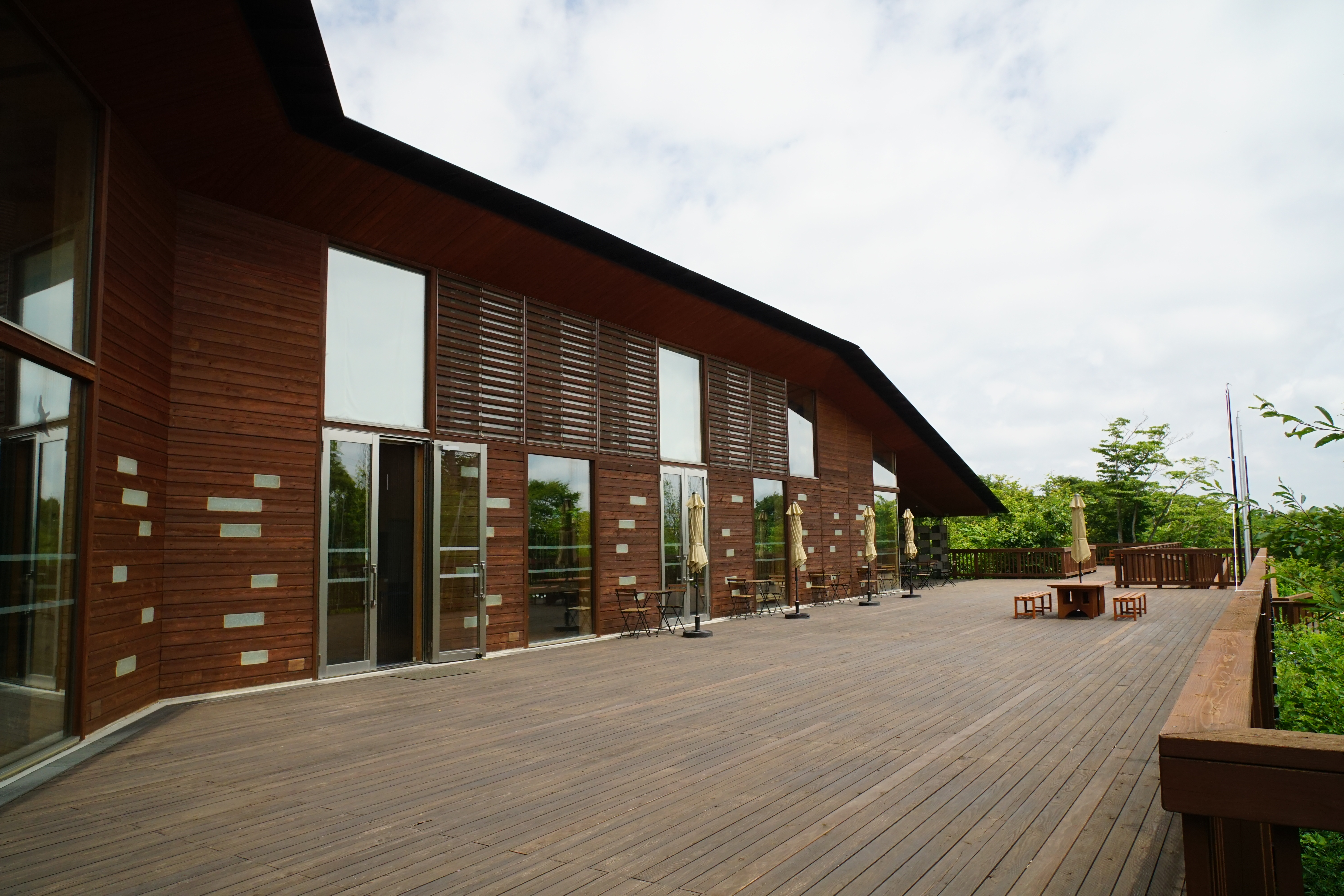 Nasu_Heisei-no-mori_Forest in Nasu, Tochigi prefecture, Japan